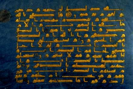 blue Quran manuscript, in Beit Al Quran, Bahrain